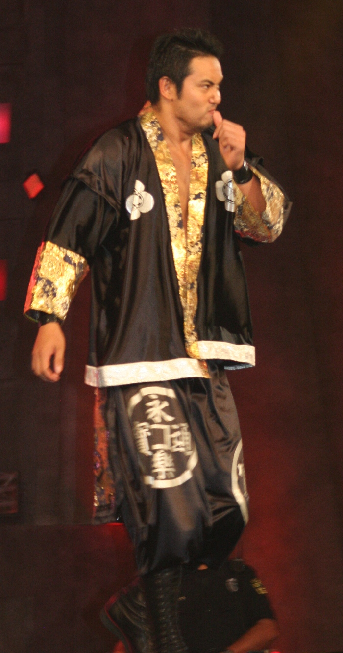 Professional wrestler Okada at a TNA Impact! taping